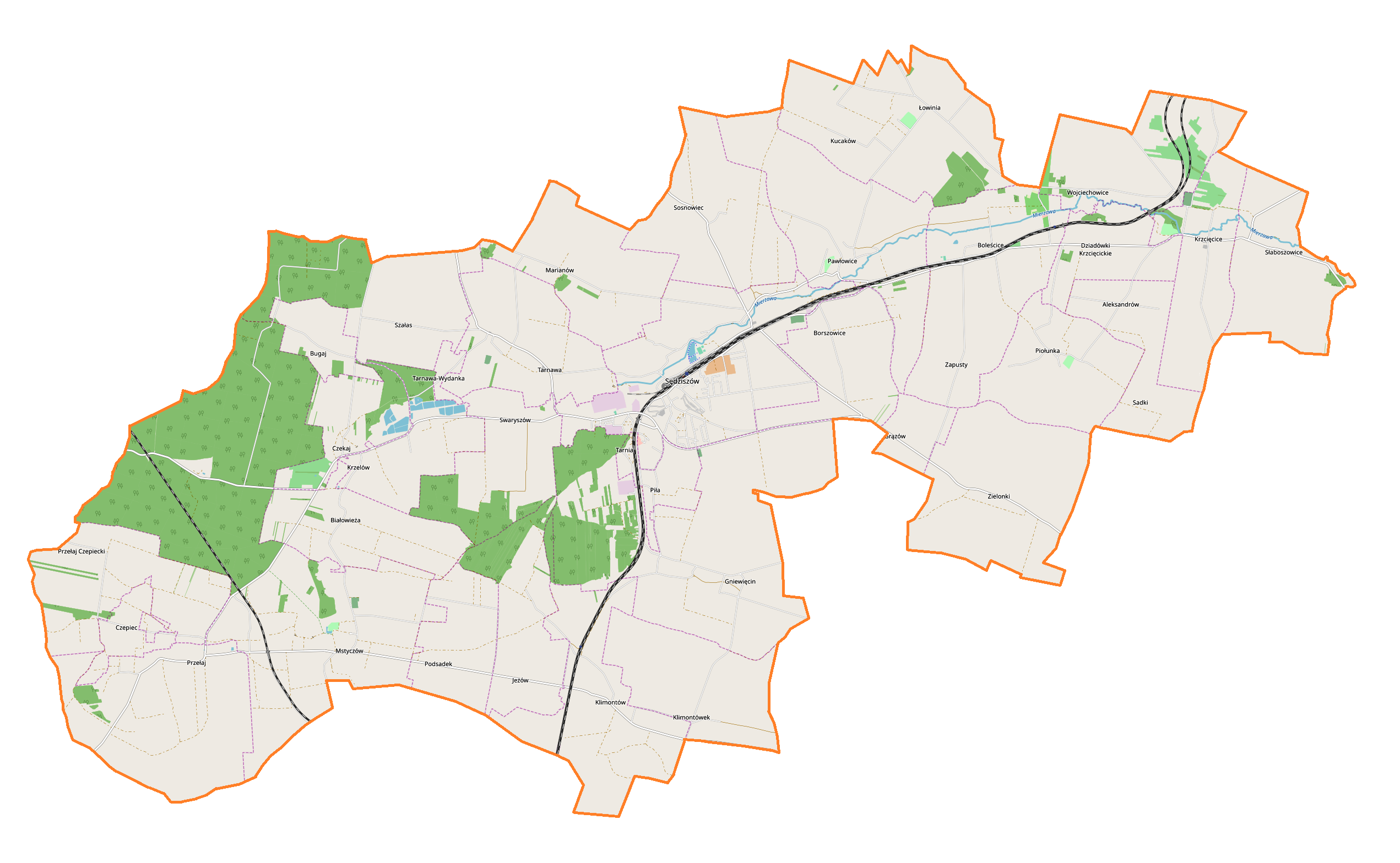 Location map